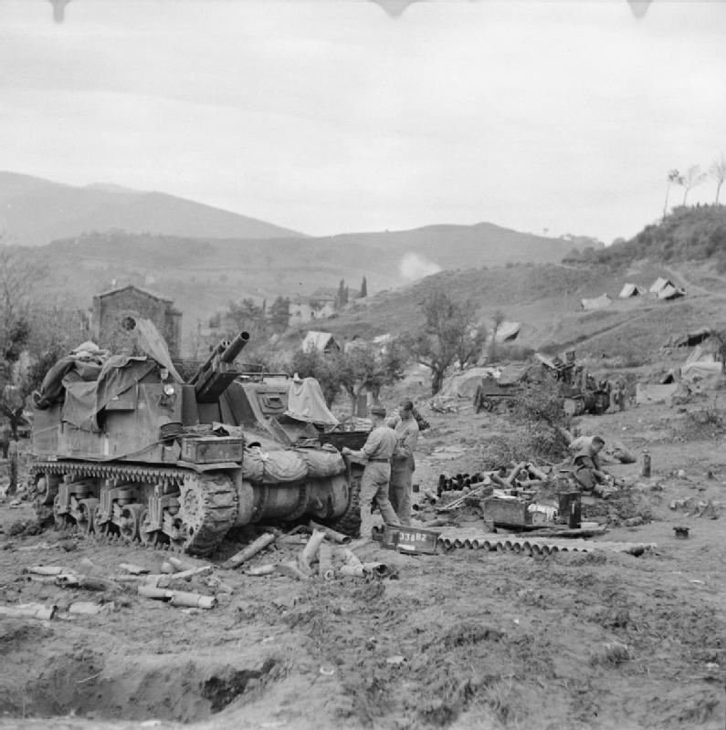 The British Army in Italy 1944 Priest 105mm self-propelled guns of 78th Division, 25 October 1944.